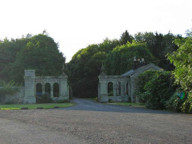 East Lodge This impressive gateway leads to Shawdon Hall.